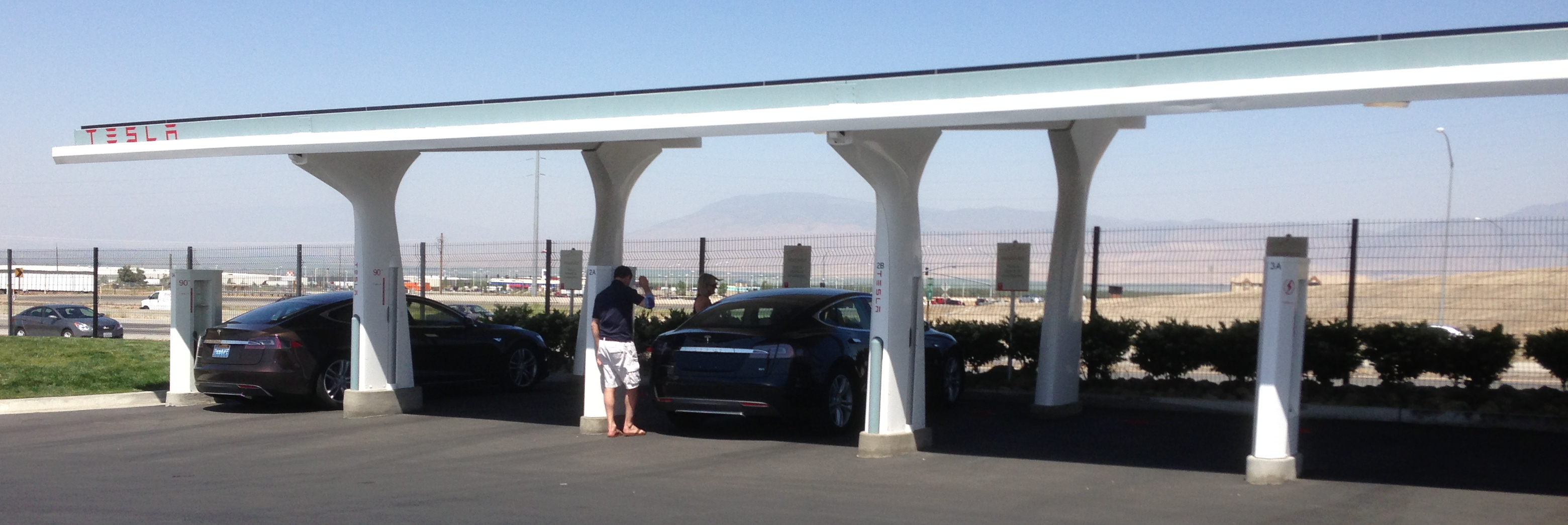 A Tesla charging station with a rooftop solar collector feeding energy into the grid (not directly into the pictured Model S electric cars) that is manufactured by Solar City. This station, one of a number, is located in Tejon Ranch, California, USA, on the I-5 freeway about 100 miles north of Los Angeles.